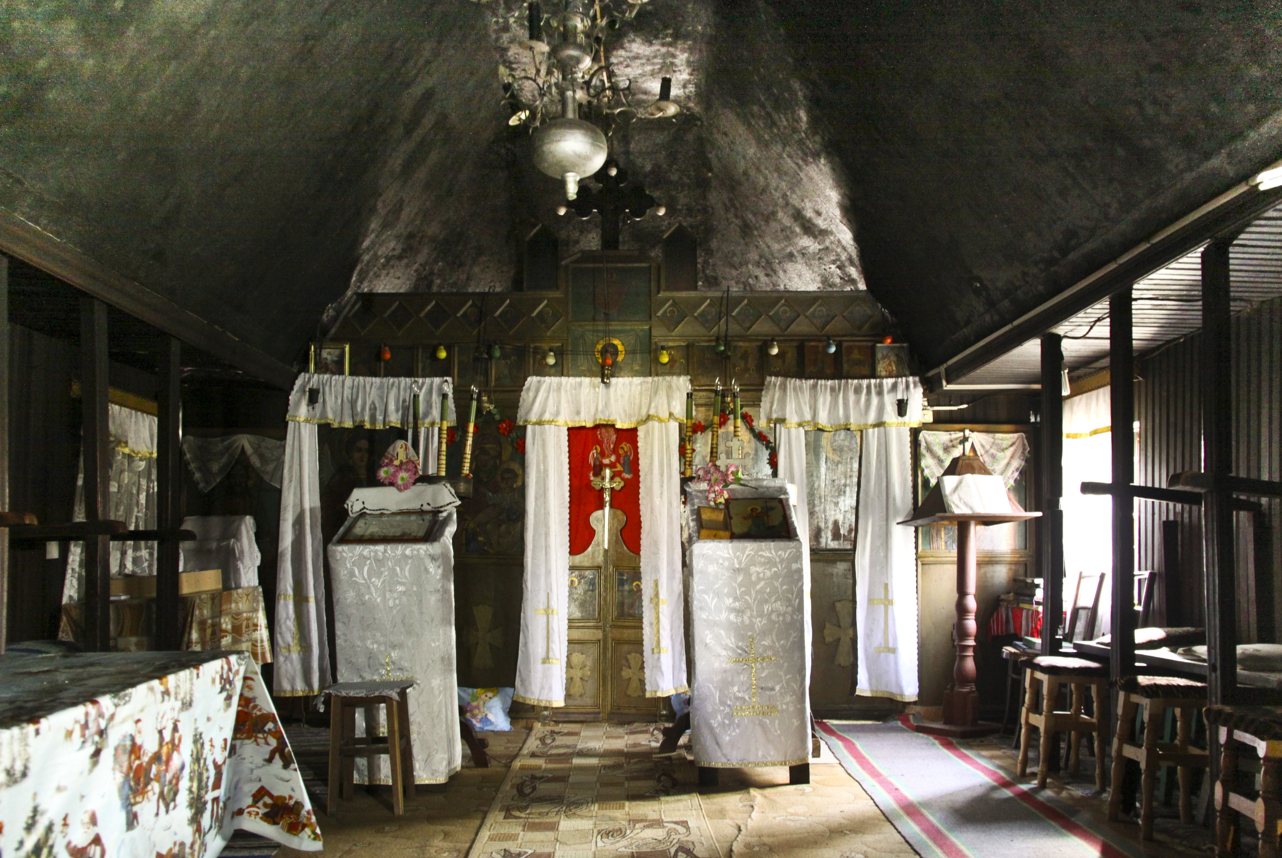 Teleormanu, Teleorman county, Romania: the wooden church.